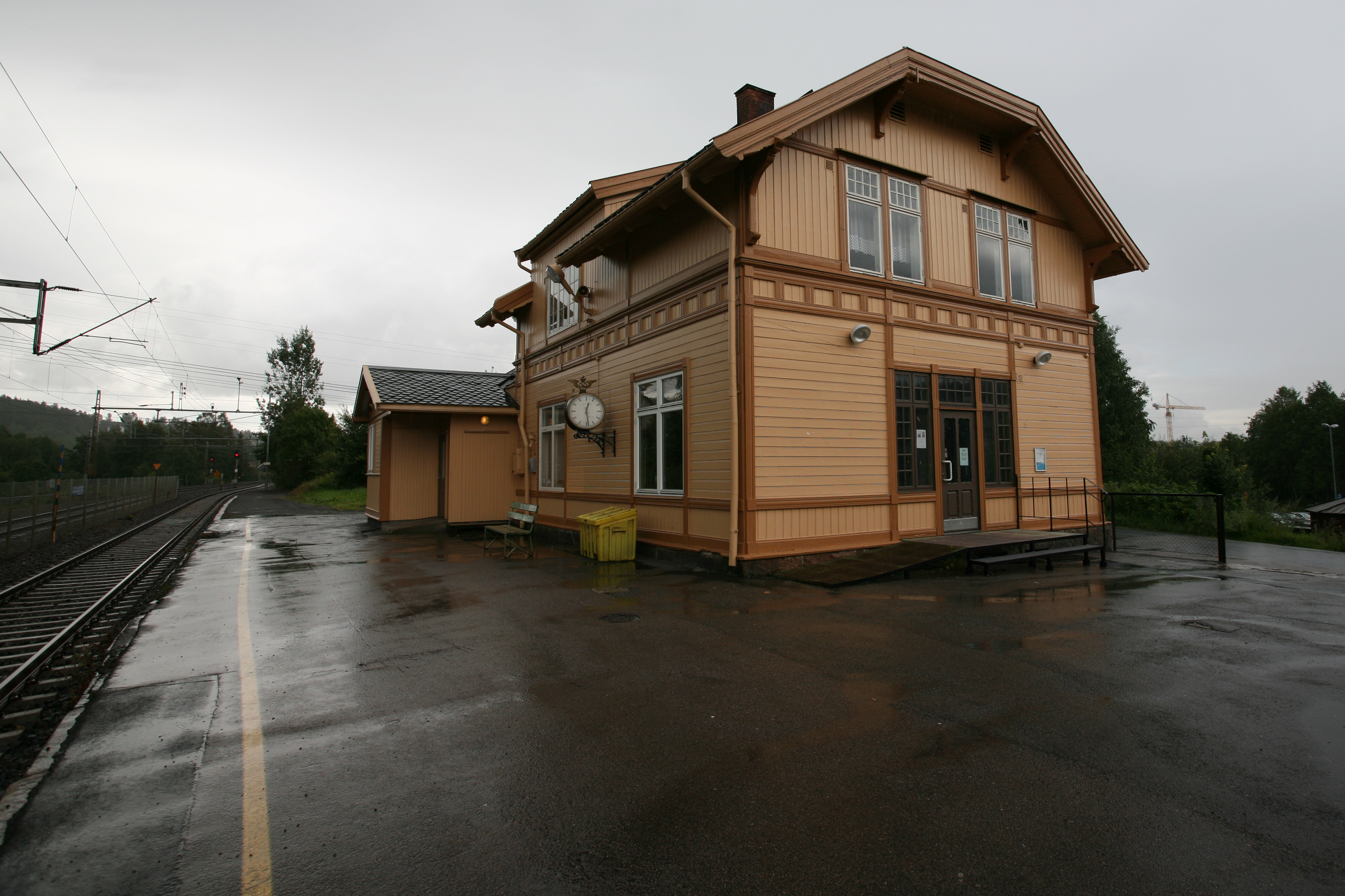 Picture of Lørenskog Railway Station (Norway)